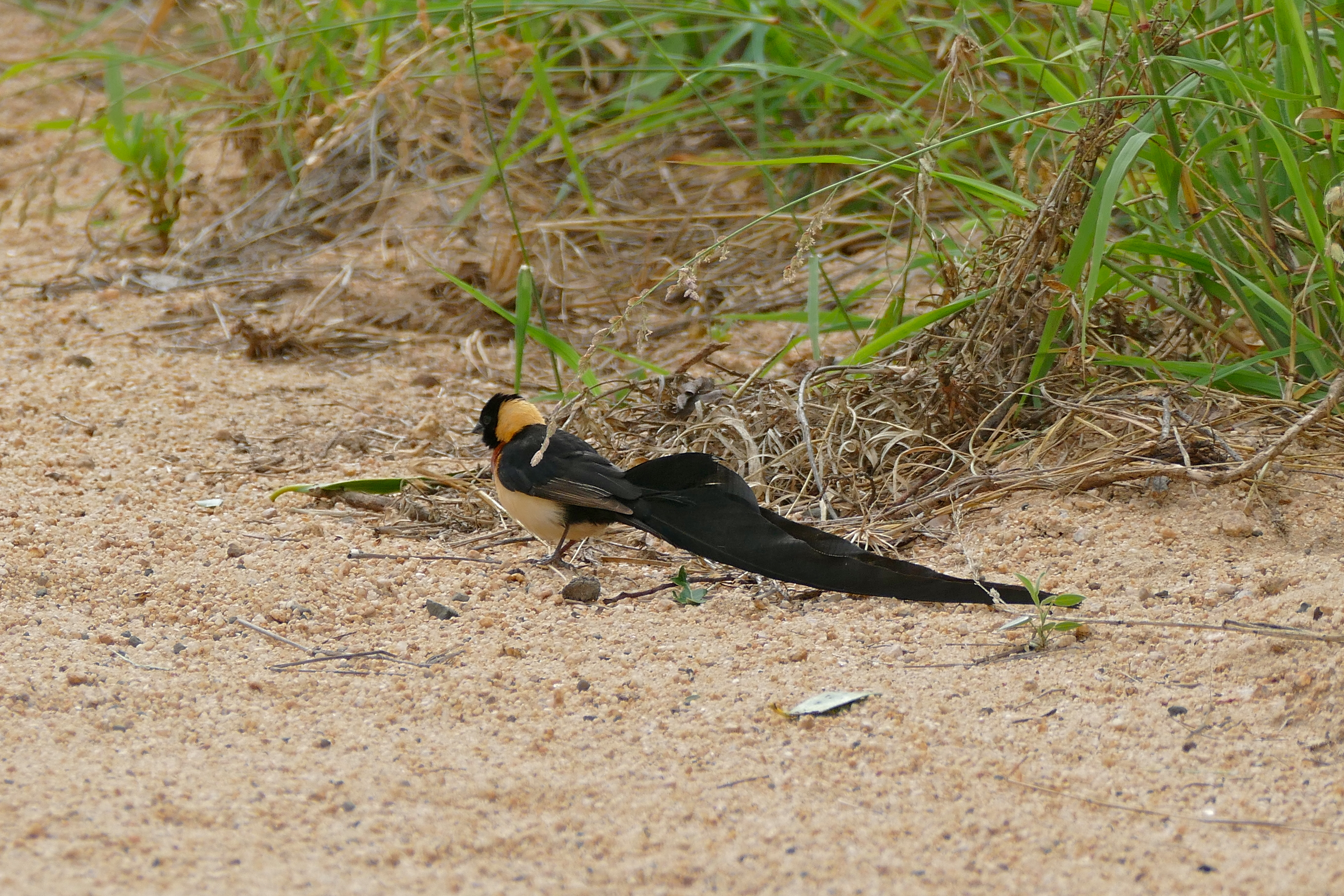 H5 Road North of Biyamiti, Kruger NP, SOUTH AFRICA